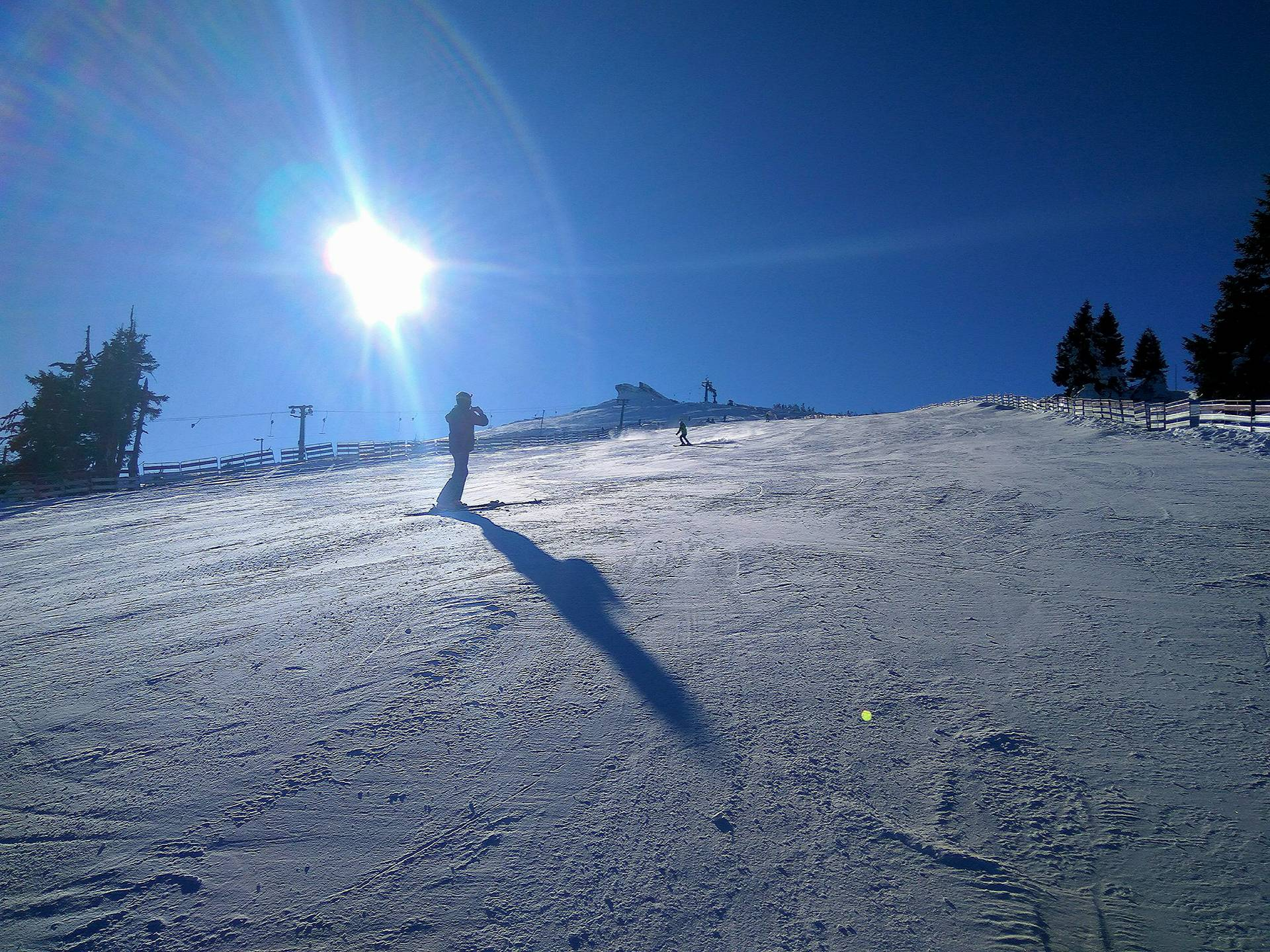 The ski slope of Petrovy kameny. Shot from the top of the slope towards the third highest peak of Hrubý Jeseník - Petrovy kameny.